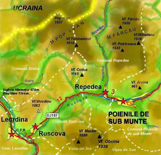 a detailed map of poienile